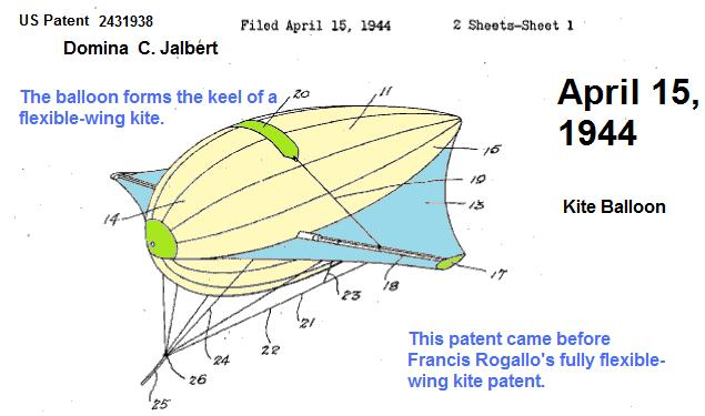 Domina C. Jalbert did work prior to his April 15, 1944 patent for the Kite Balloon with fabric (flexible) wings in the claims. The keel is a balloon member (he claimed the parts could be any size).